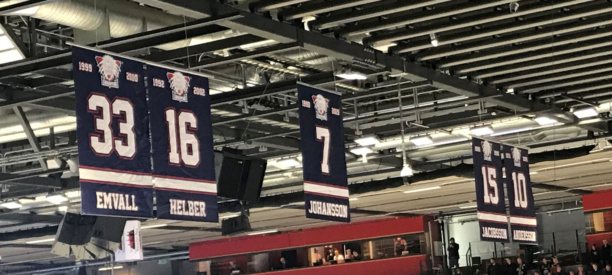 Retired jerseys of Swedish hockey club Linköping HC.